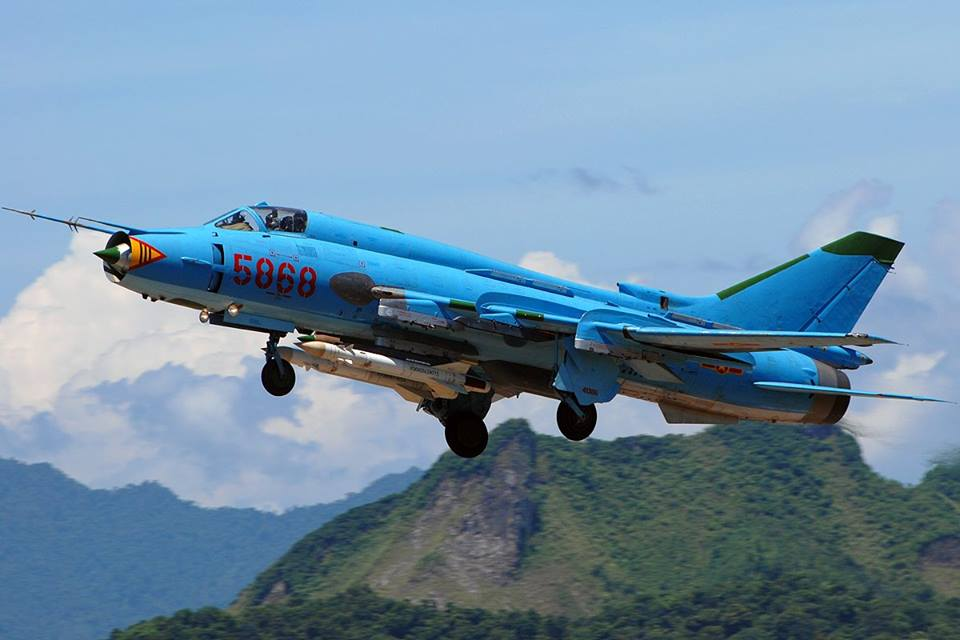 Vietnamese Su-22M4 with Kh-25s